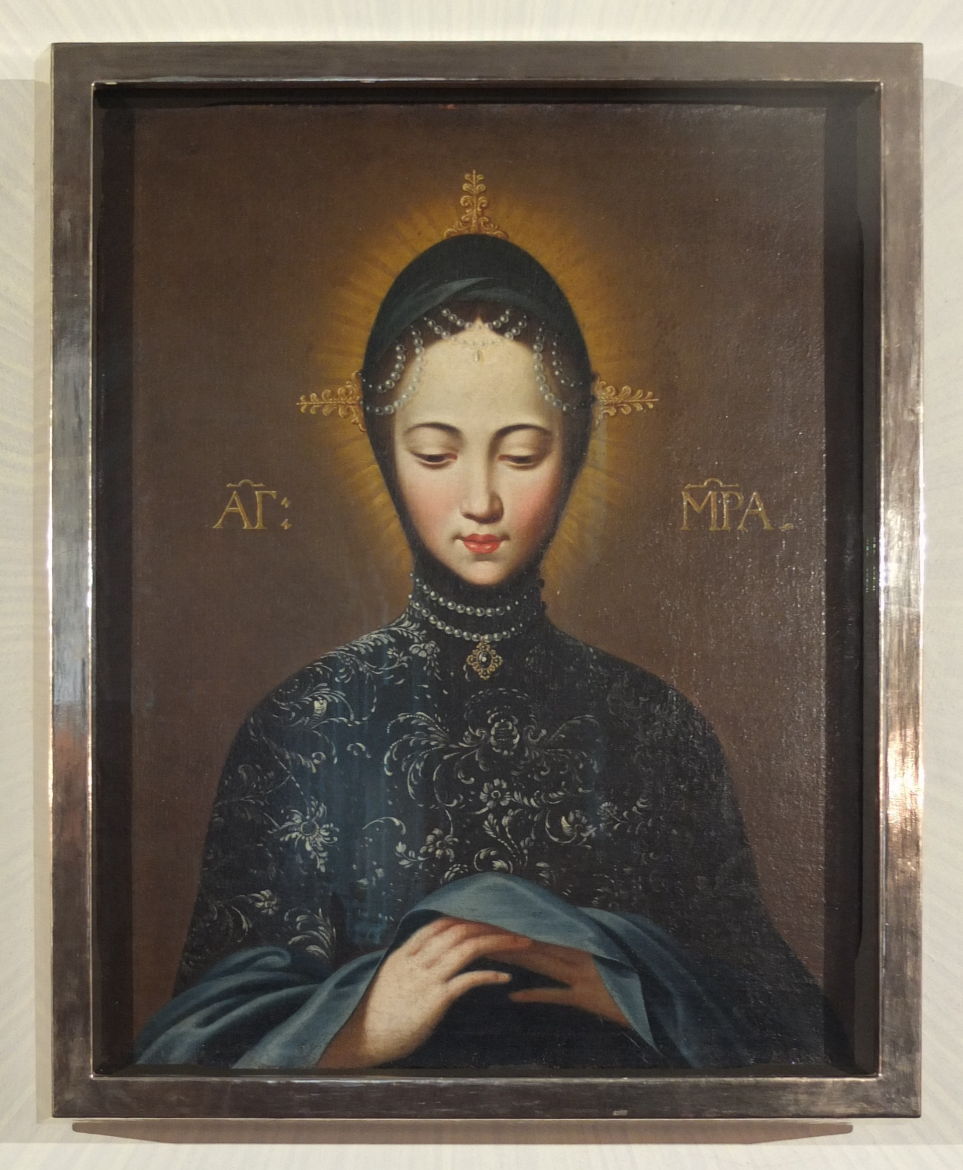 The so-called "Mattheiser Gnadenbild" by an unknown artist, around 1700, showing the pregnant Virgin Mary, St. Matthias basilica, Trier, Germany. The well-known painting is responsible for many of Marian pilgrimages to St. Matthias basilica every year. ↑